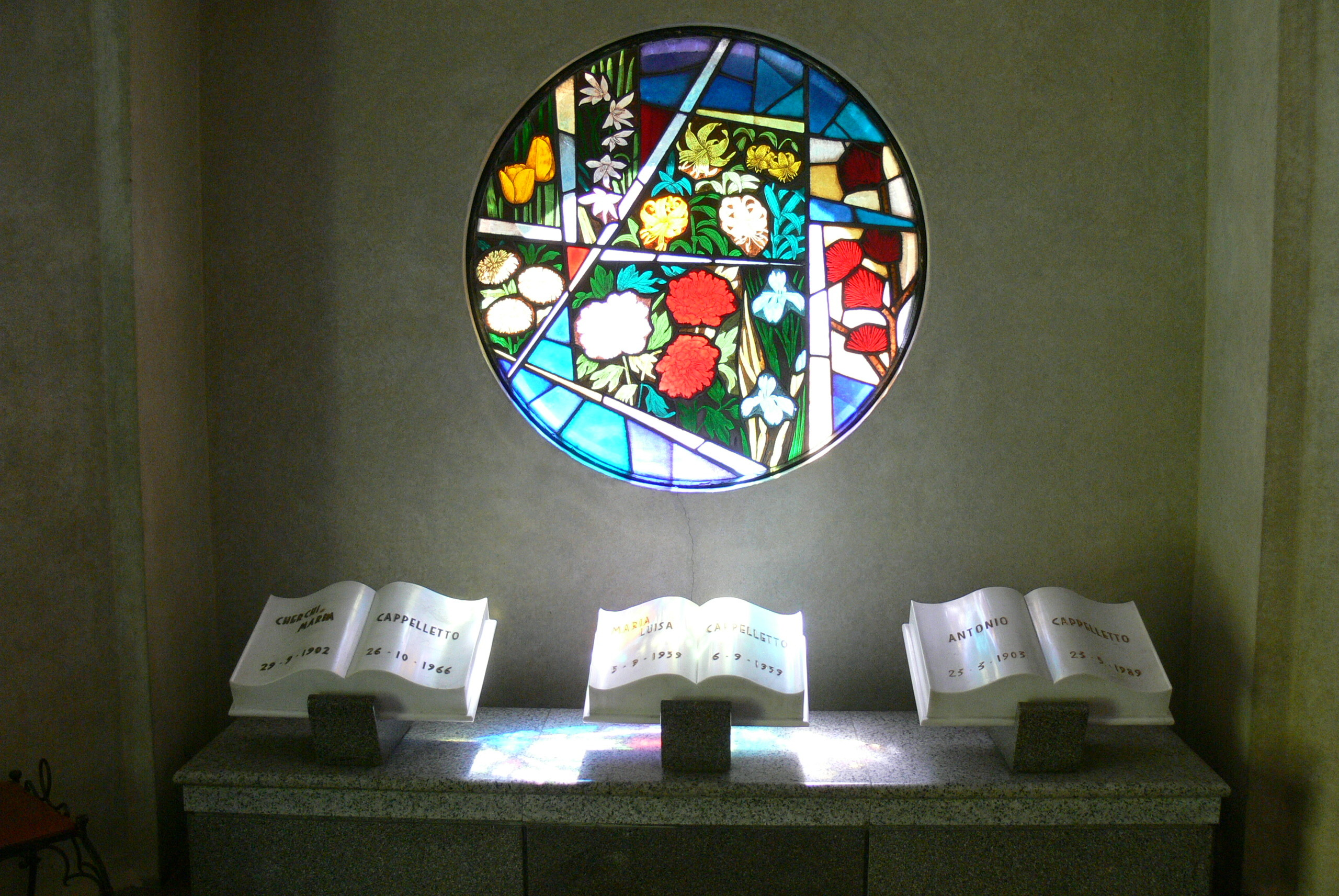 Villa Taranto ( Verbania-Pallanza ). Mausoleum ( 1965 ) of Neil McEacharn, founder of the gardens - Grave of the Capeletti family.